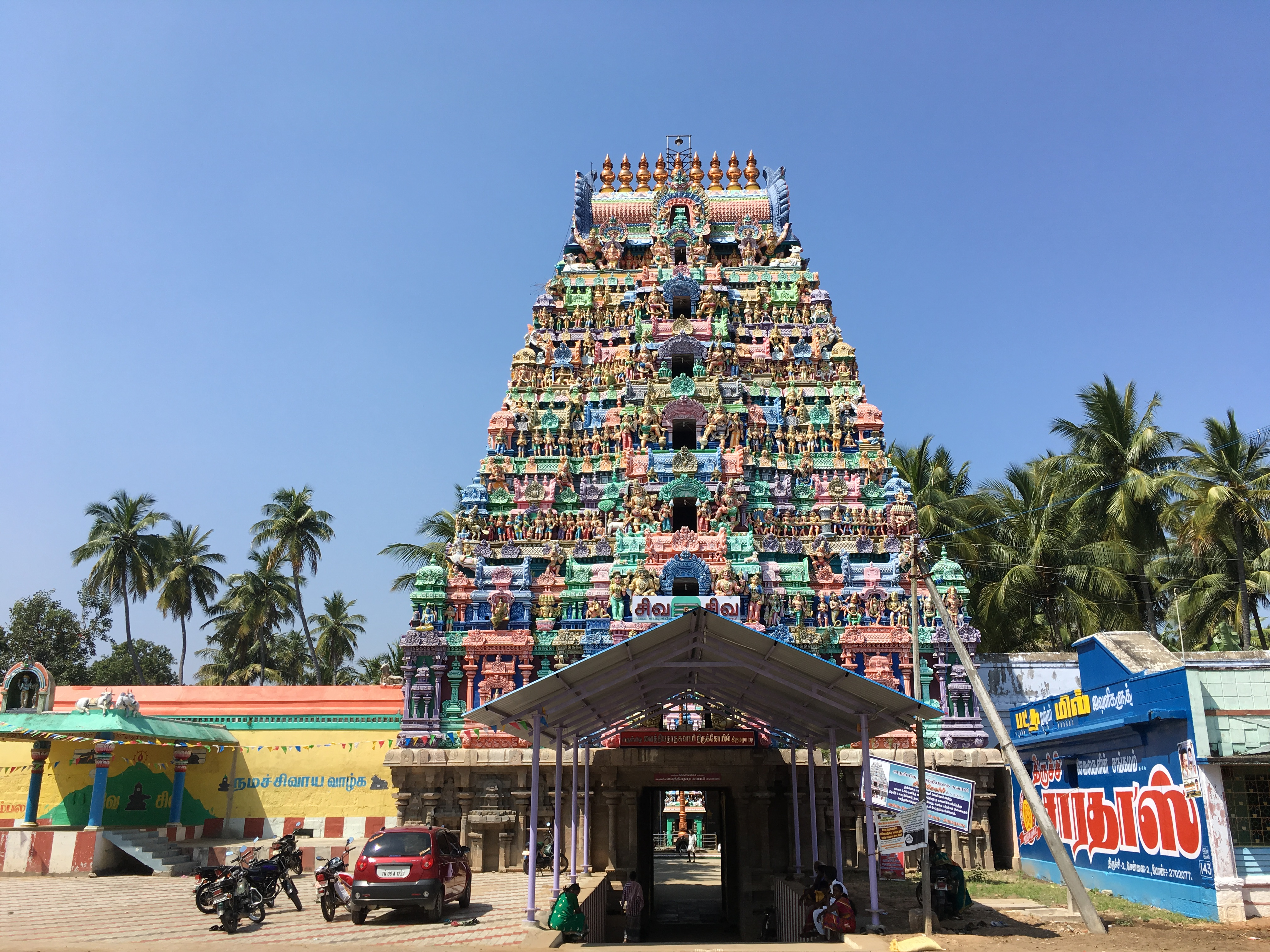 View of the Thirumazhapadi temple from the road. This picture was shot from the river bank opposite to this temple.